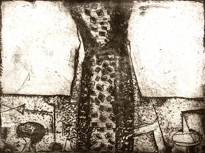 715 24,8x33cm paper